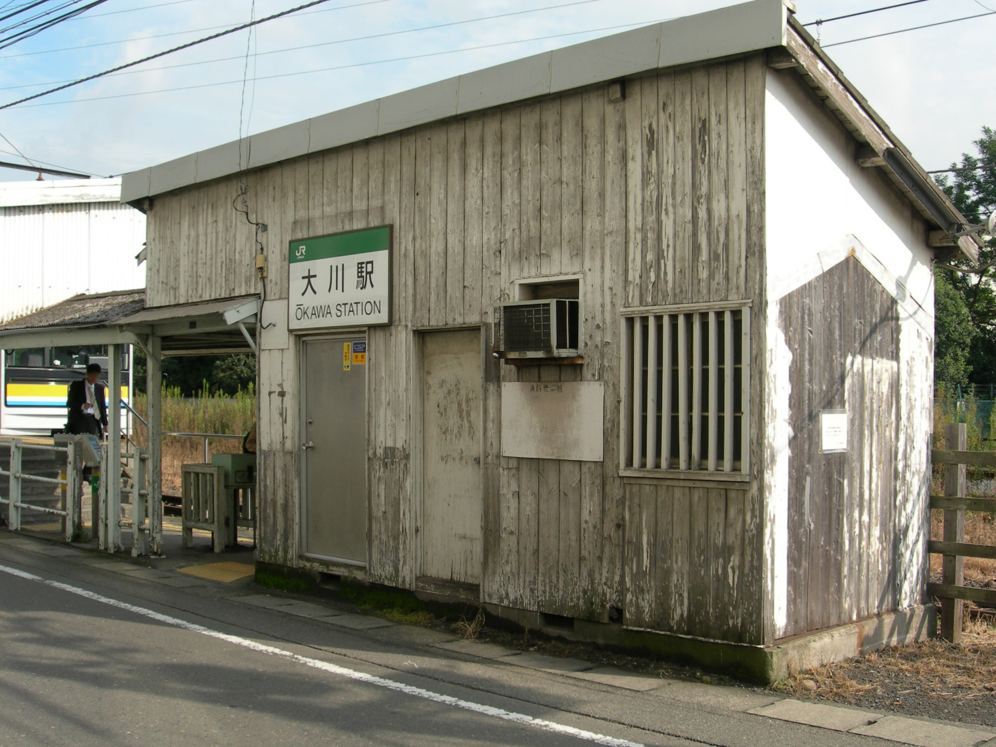 The station building at Ōkawa Station on the Tsurumi Line in Kanagawa Prefecture, Japan